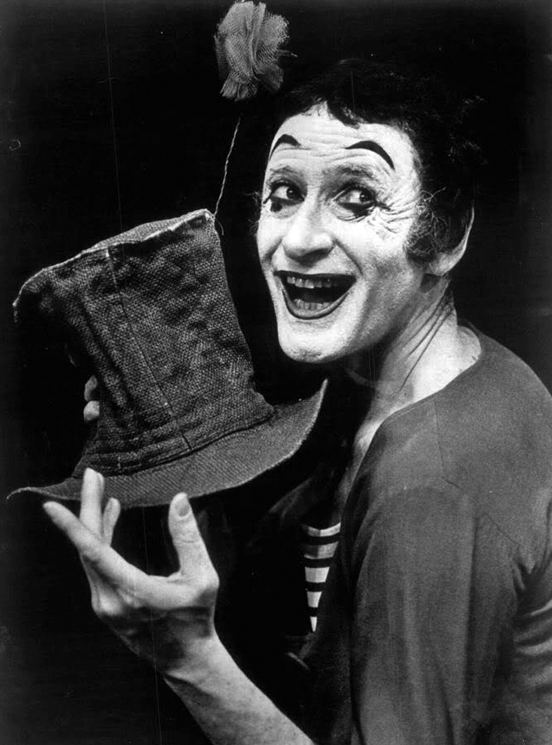 Publicity photo of Marcel Marceau for appearance in Seattle, Washington.